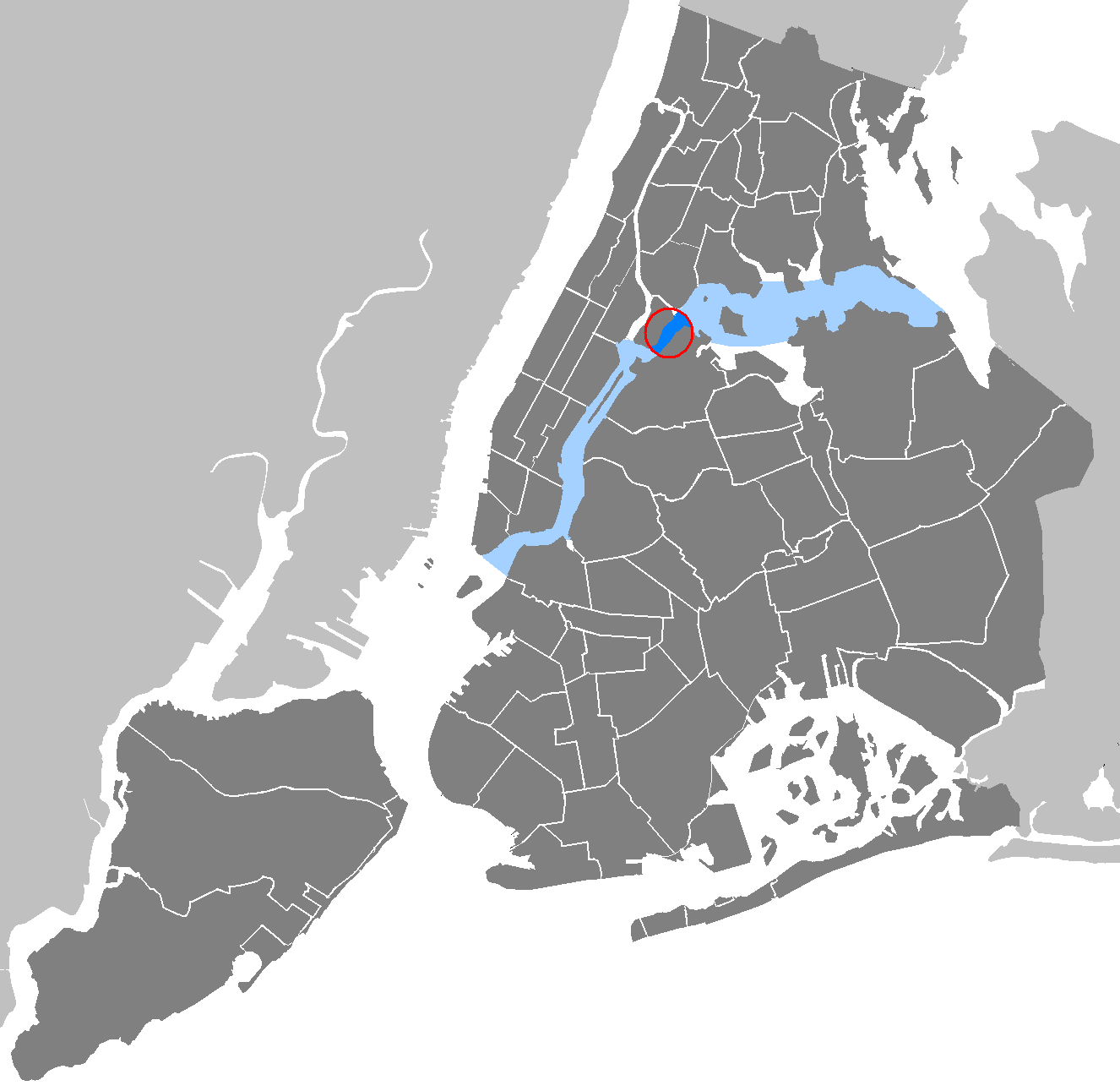 Maps of New York City: New York City - Manhattan